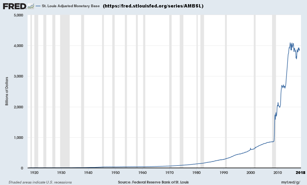 St. Louis Adjusted Monetary Base